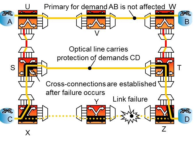 Shared backup path protection - after failure and recovery